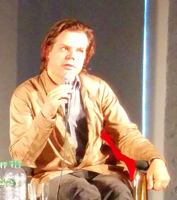 A photo of Renzo Martens at KW Berlin.